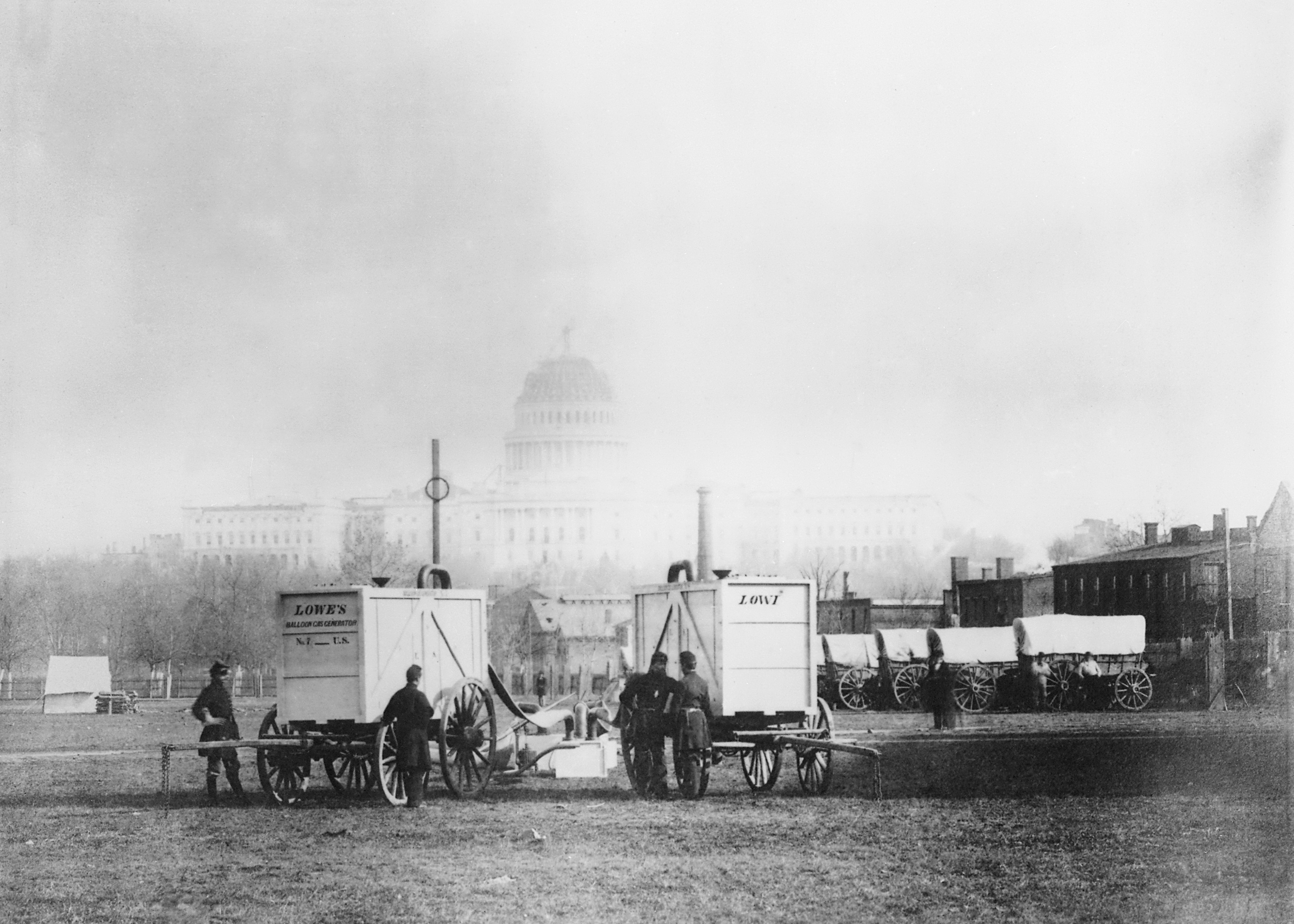 Professor Thaddeus Lowe's Balloon Gas Generators. The U.S. Capitol in background, Washington, DC, circa 1861., 1899 - 1932